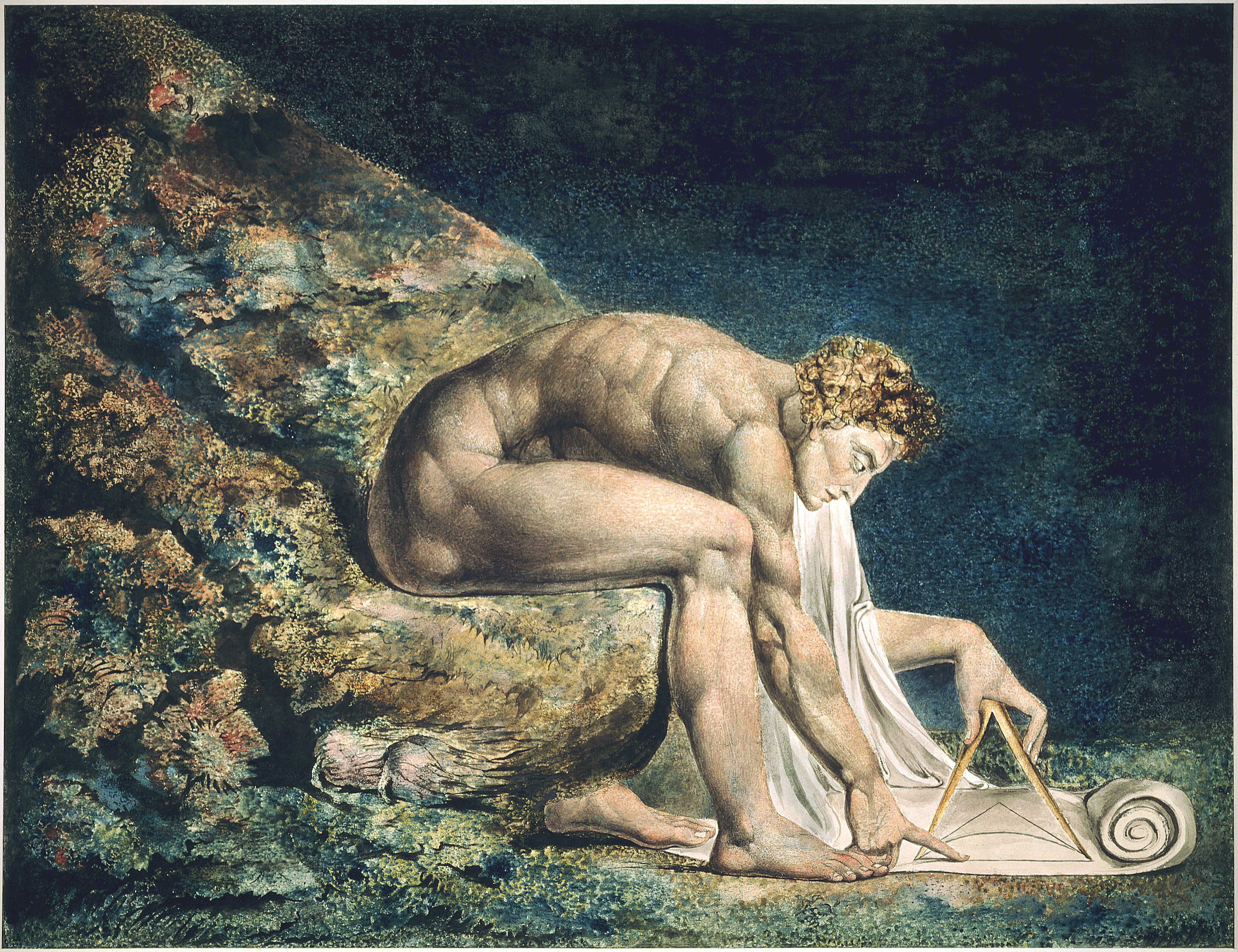 William Blake's Newton (1795), colour print with pen & ink and watercolour. Blake's picture of Newton as a divine geometer was one of a series he created whilst living in Lambeth in the late 1790s. Blake's printing appears to have been a form of self-developed monoprint which he then finished with additions in pen and ink coupled with watercolour washes.